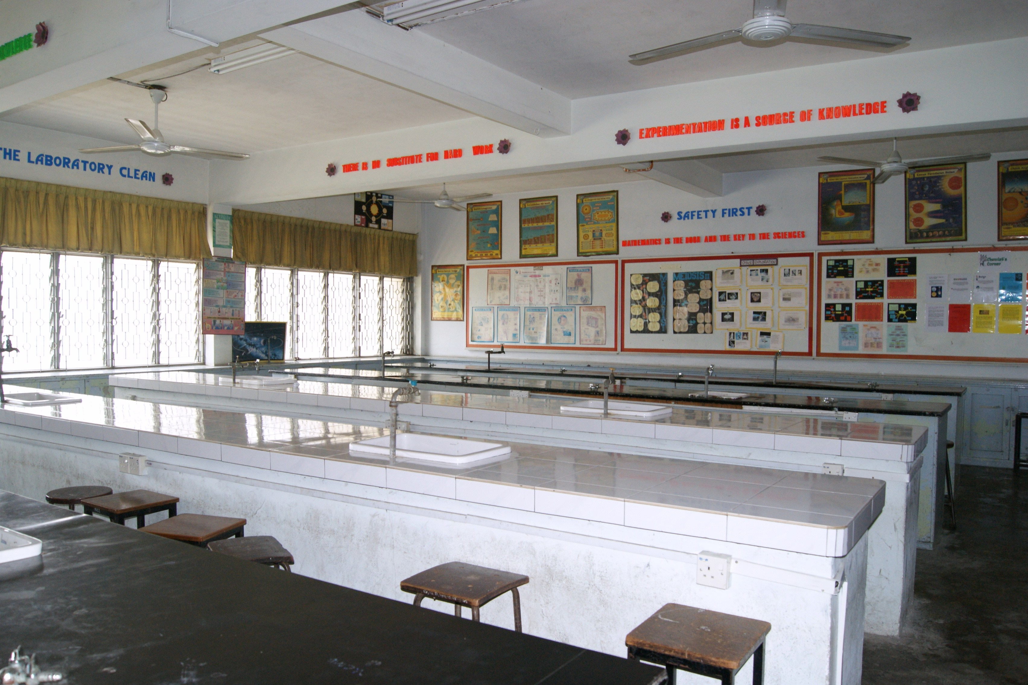 Science Lab 1 - Hari Raya